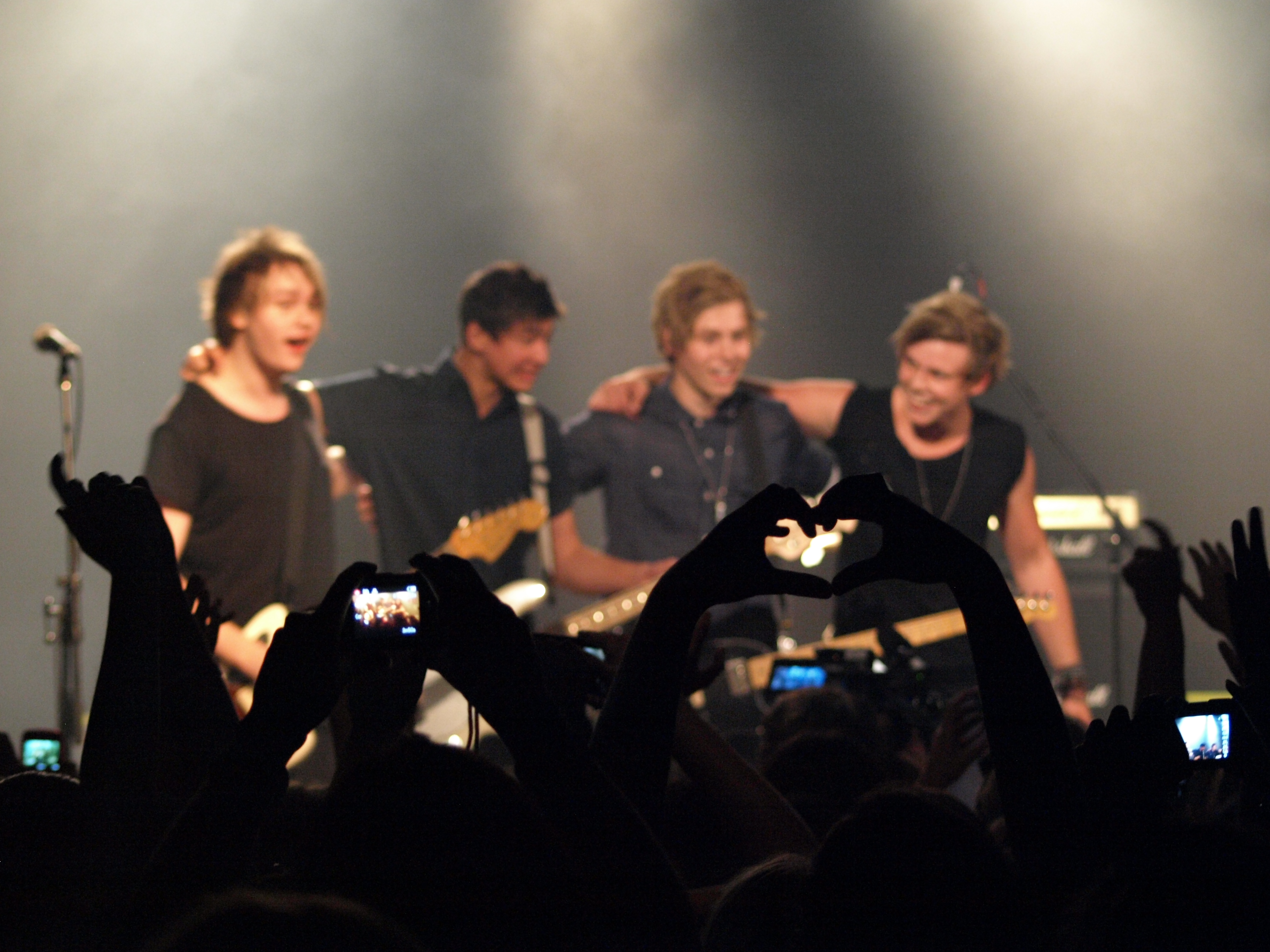 5 Seconds of Summer at their EP launch gig at Metro Theatre, Sydney, 25.11.12